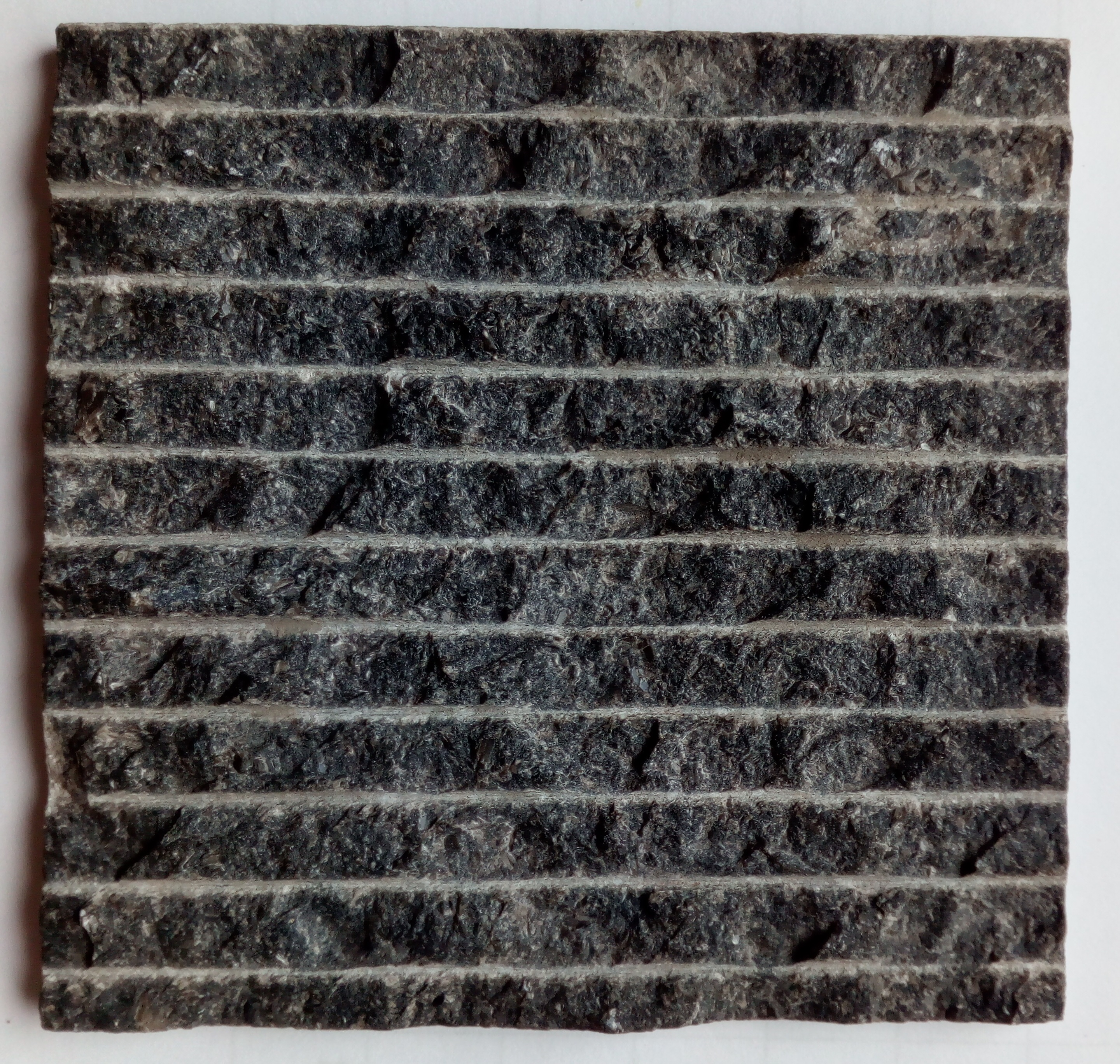 Sclype stone front